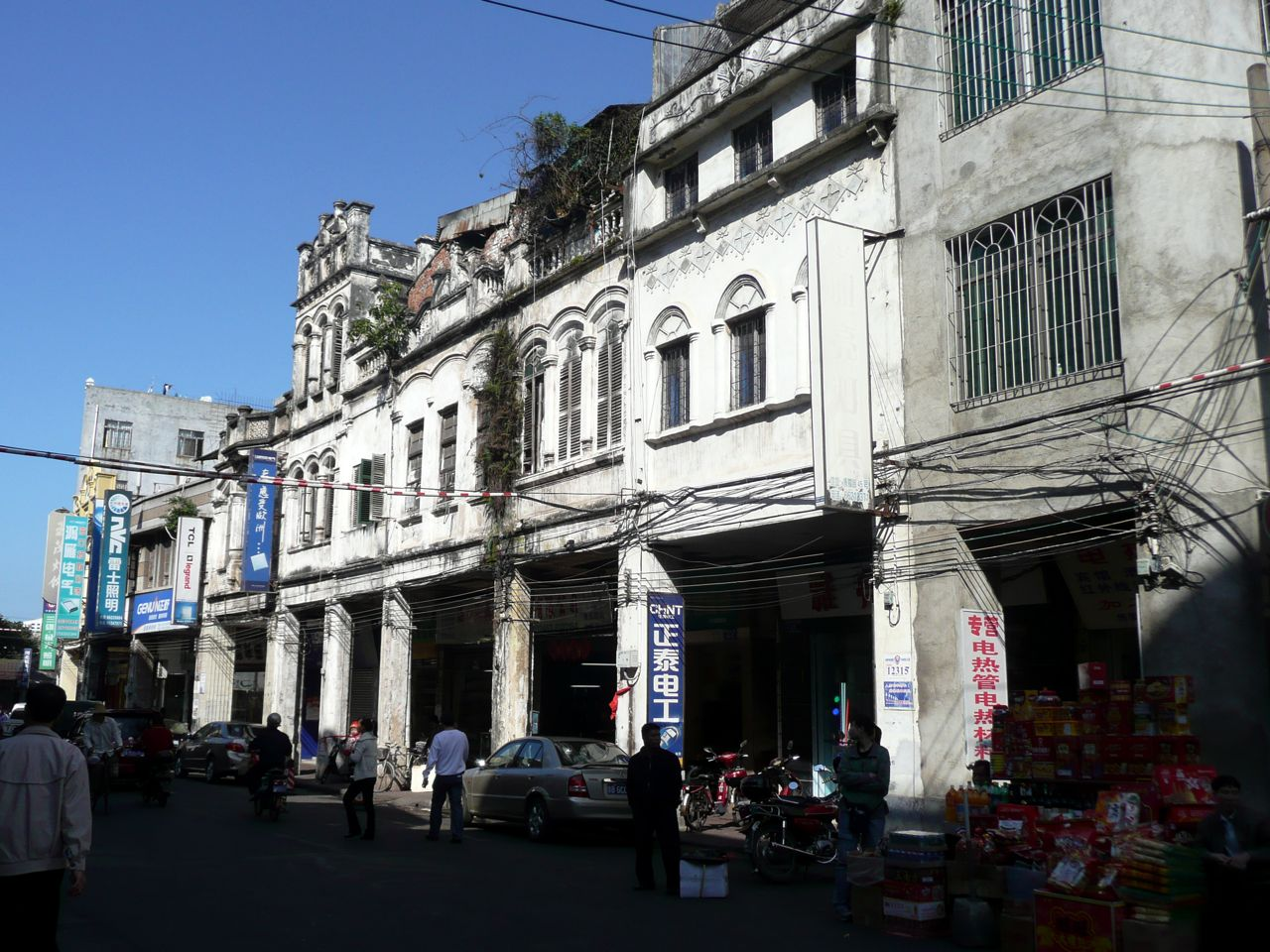 Bo'ai Road area in Haikou city, Hainan, China. The old shopping area.